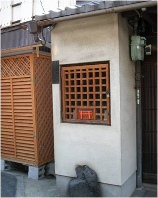 Kanda-Zingu in Shinkamanza-cho, Shimogyo-ku, Kyoto. This Shrine enshrines the Dojo which was built to appease head of Taira no Masakado.